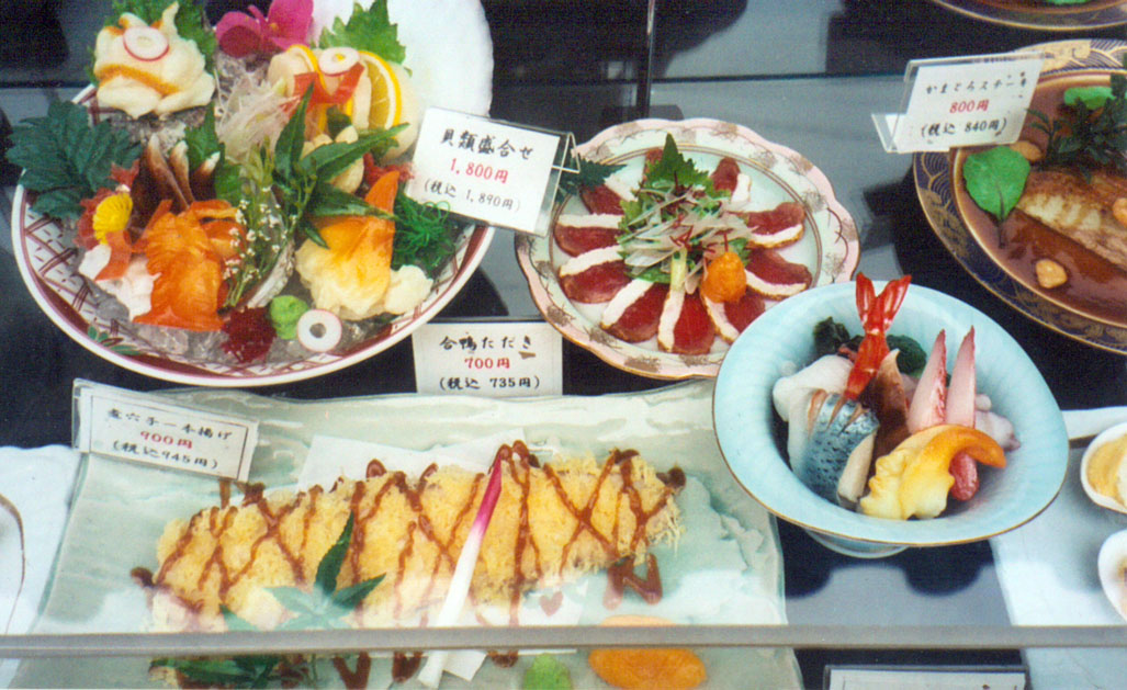 Japanese molded plastic food replicas. Photo taken in Japan 2006 by myself (Bantosh).